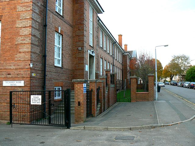 Commonweal School, the Mall, Swindon The school dates from 1927 and was built originally as a local education authority grammar school. It became a comprehensive in the 1960s and is now a performing arts college. This is a view facing north along the Mall.